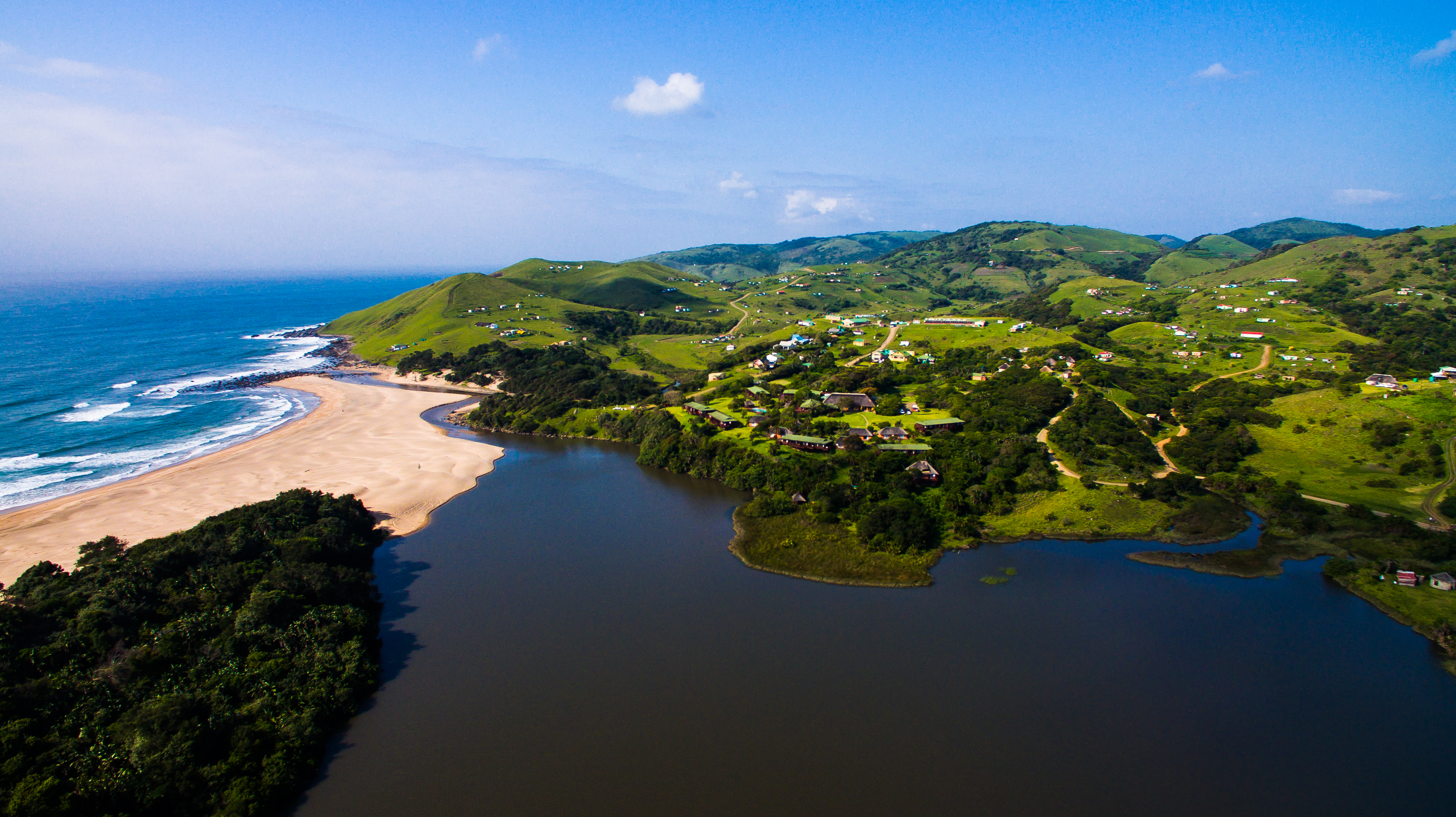 Mboyti near Lusikisiki is a small settlement located along the wild coast of the Eastern Cape, South Africa. The area boasts extreme waterfalls, deserted beaches and spectacular views.